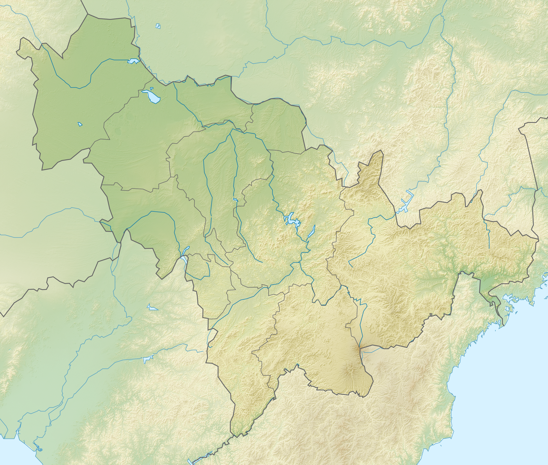 Location map of Jilin, People's Republic of China Equirectangular projection, N/S stretching 141 %. True scale parallel: 45°00' N. Geographic limits of the map: N: 46.5° N S: 40.5° N W: 121.5° E E: 131.5° E